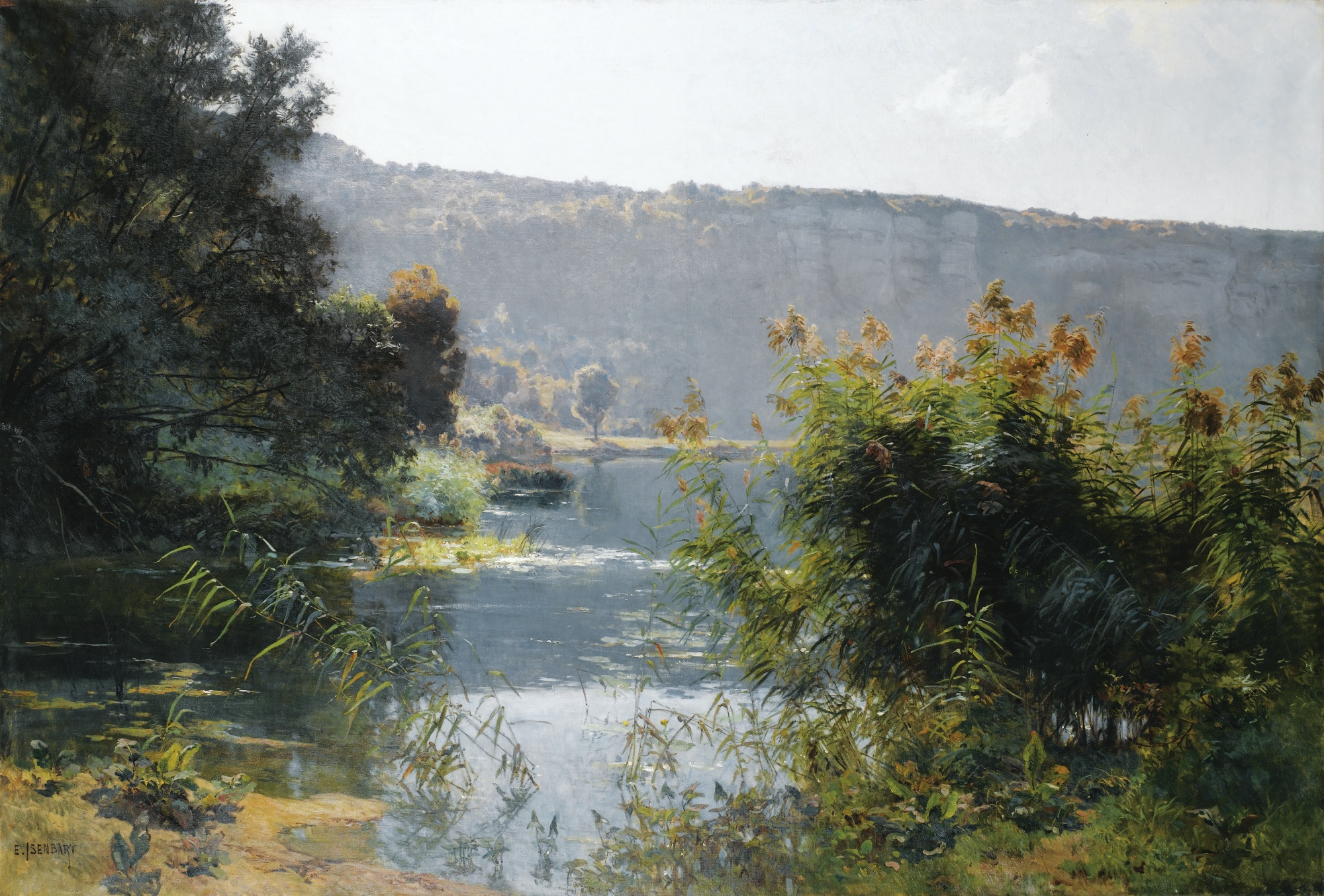 LANDSCAPE OF THE DOUBS